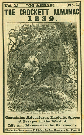 From: Crockett Almanac 1839. Containing Adventures, Exploits, Sprees & Scrapes in the West, & Life and Manners in the Backwoods. Nashville, Tennessee. Published by Ben Harding, 1838.